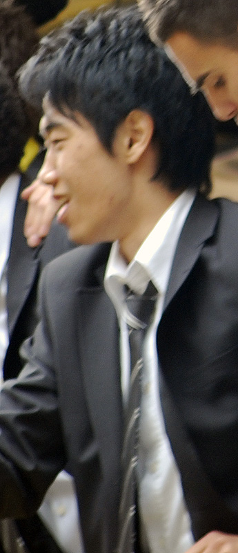 Shinji Kagawa, Player of Borussia Dortmund, 2011